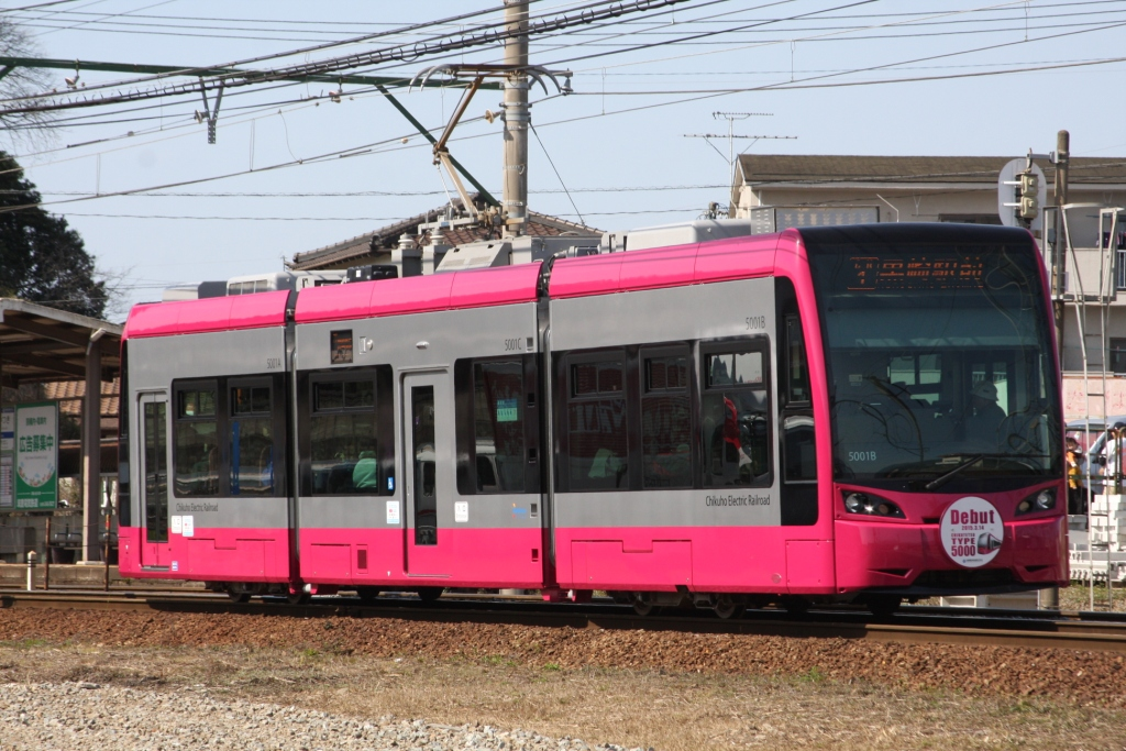 Chikuho Electric Railroad 5000 series tramcar 5001